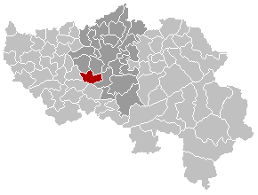 Map, municipality belgium Neupré